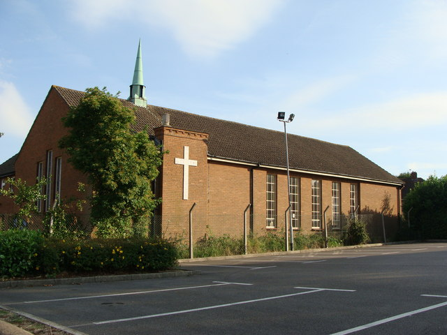 St. Christopher's church and a supermarket car park